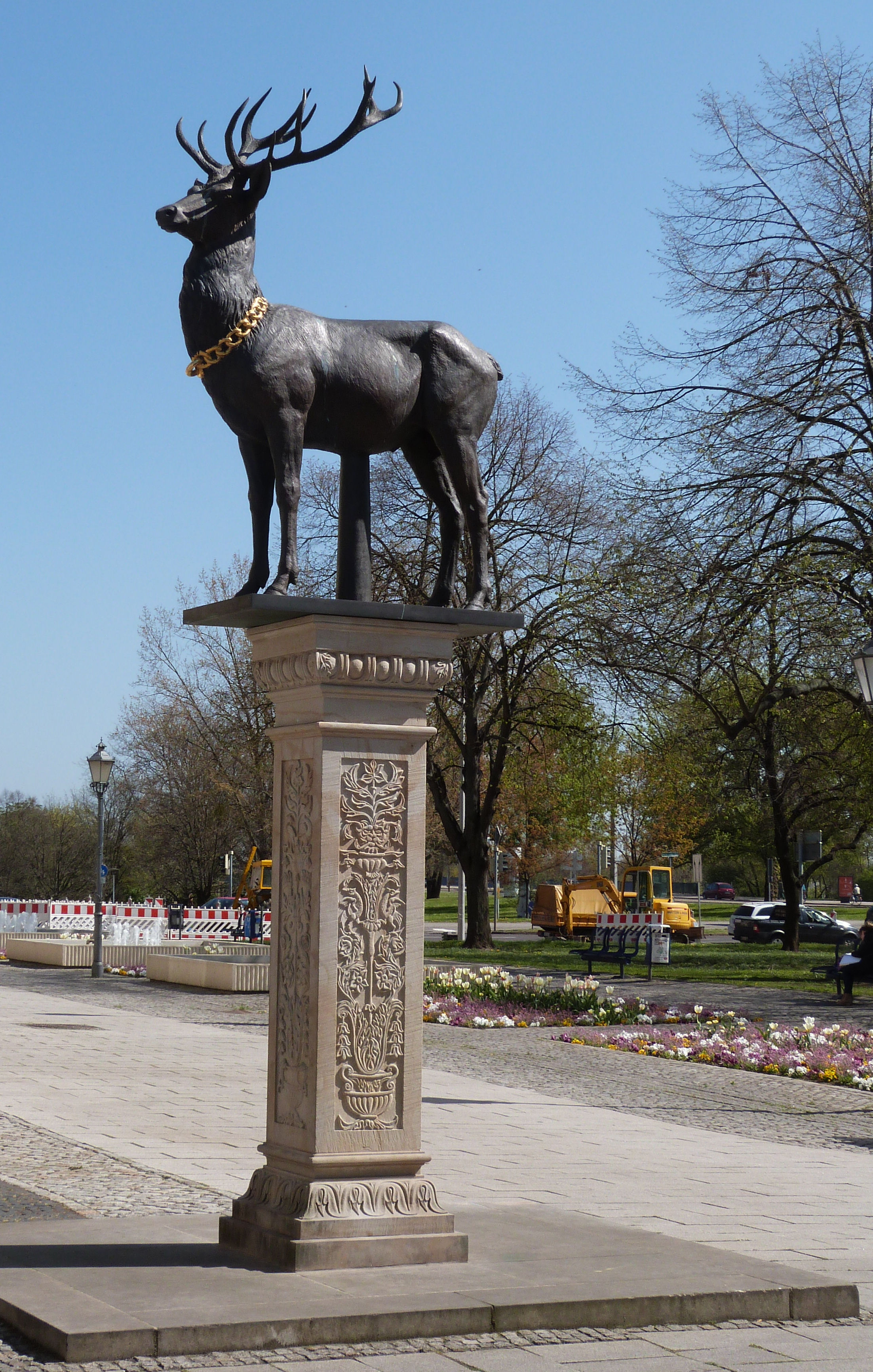 Deer column on the old market in Magdeburg